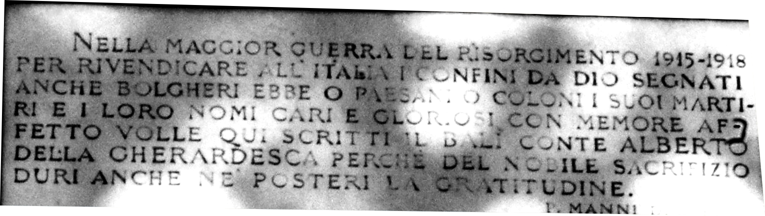 Stone about soldiers dead in WWI in Bolgheri (Tuscani)